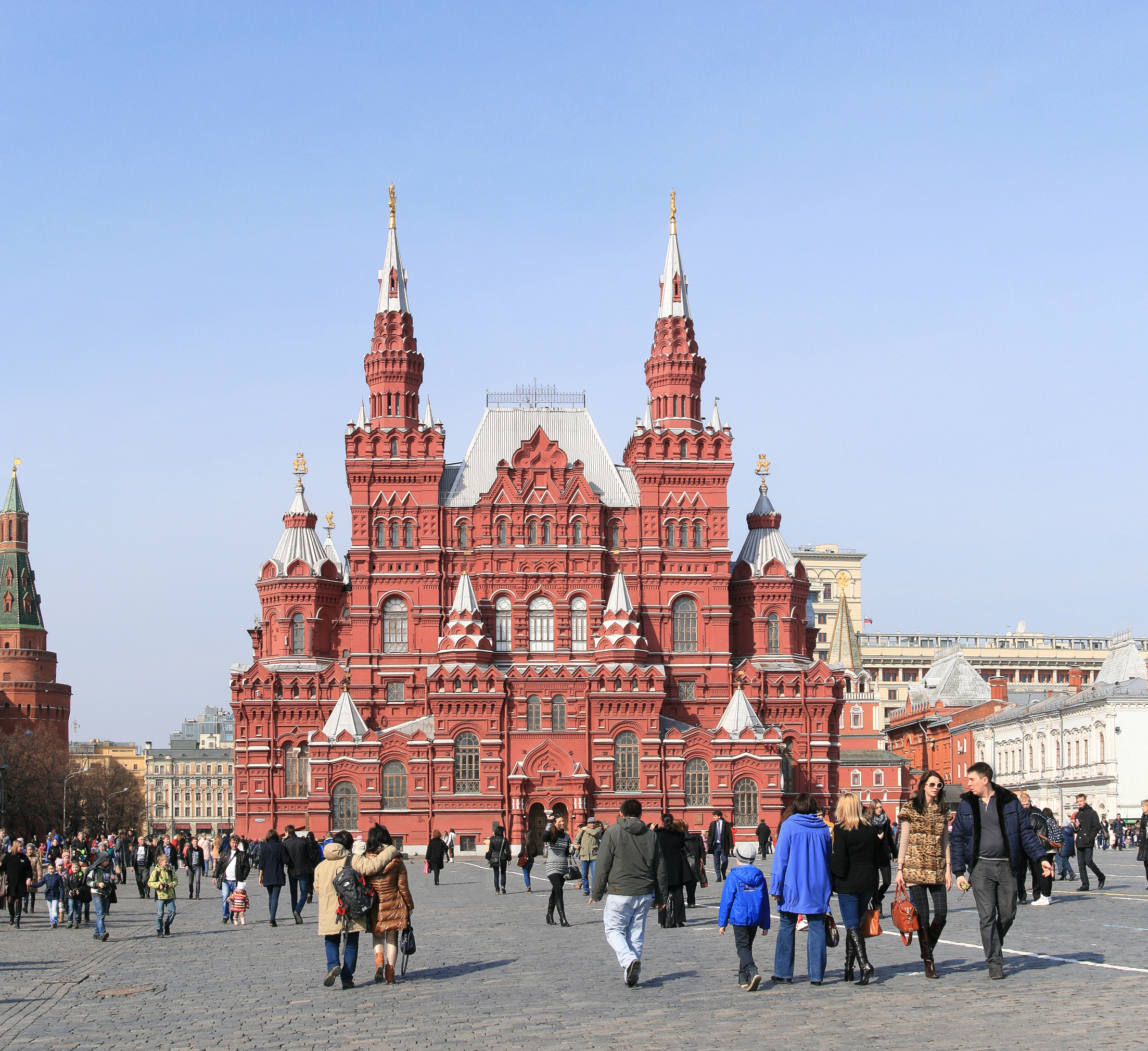 Moscow State Historical Museum